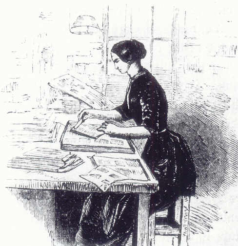 Woman folder at work